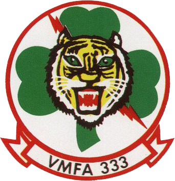 Inisgnia of the U.S. Marine Corps Marine Fighter Attack Squadron 333 (VMFA-333) "Shamrocks".